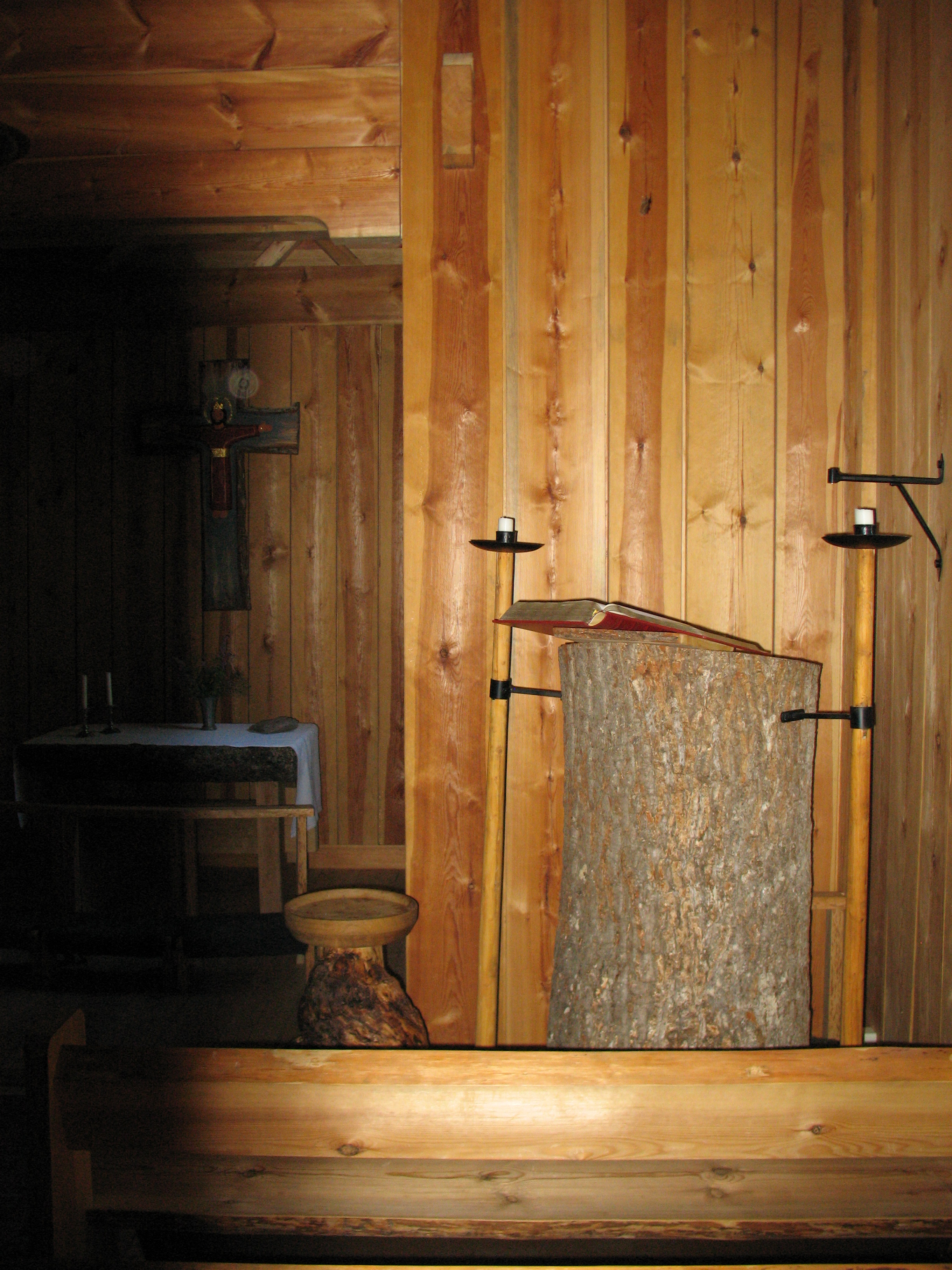 pulpit